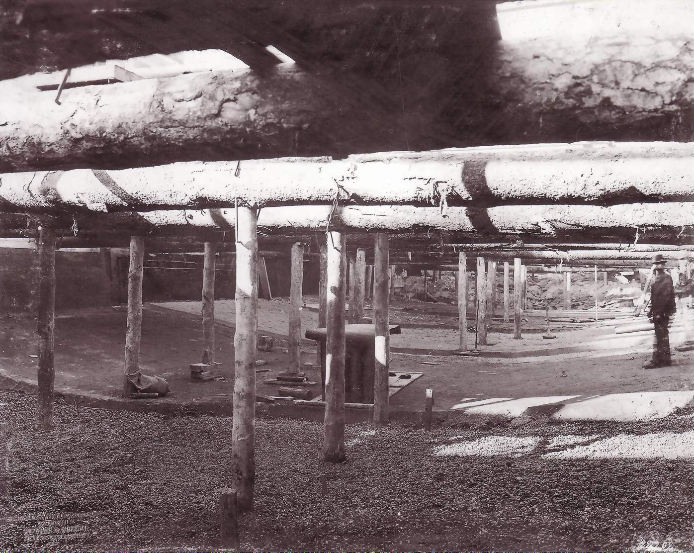 construction site of the Berlin underground station Knie, today Ernst-Reuter-Platz